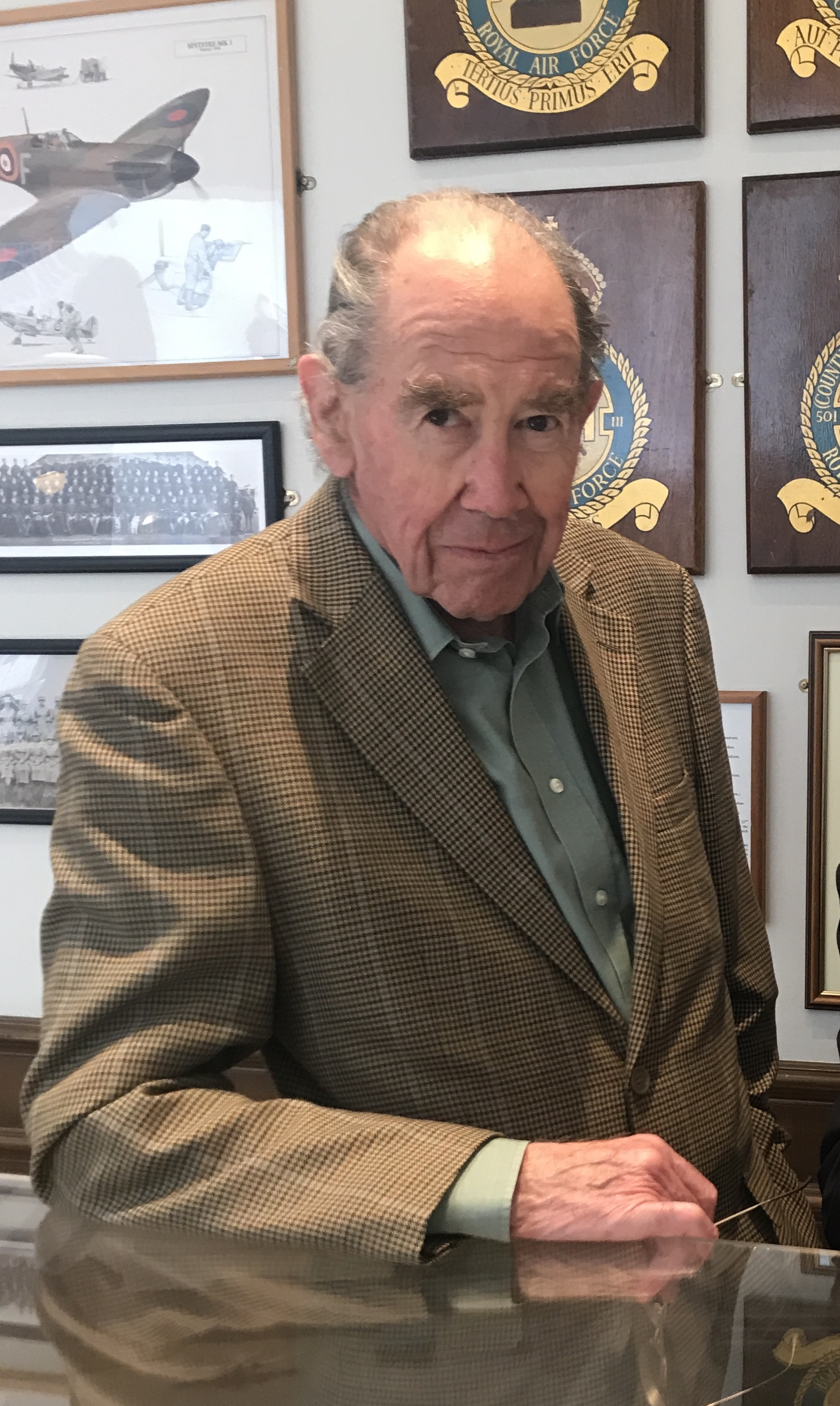 Sir Terence English, Airport House, Croydon, (Croydon Airport), 3 August 2017